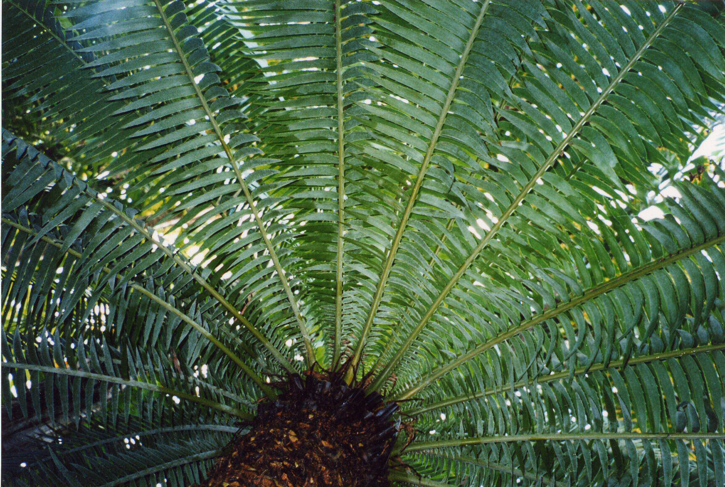 Semicircle of Cycad (Cycadales) leaves looking up trunk. Palm House, Kew Gardens.